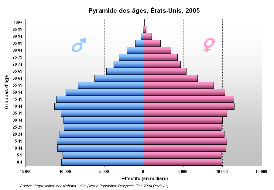 United States Population pyramid, 2005